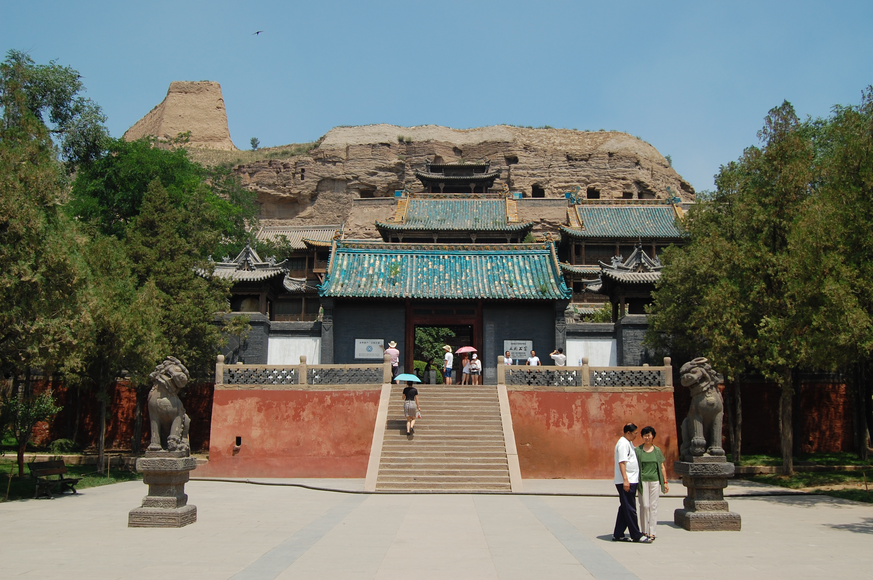 Entrance to Yungang Grottoes, Datong, China